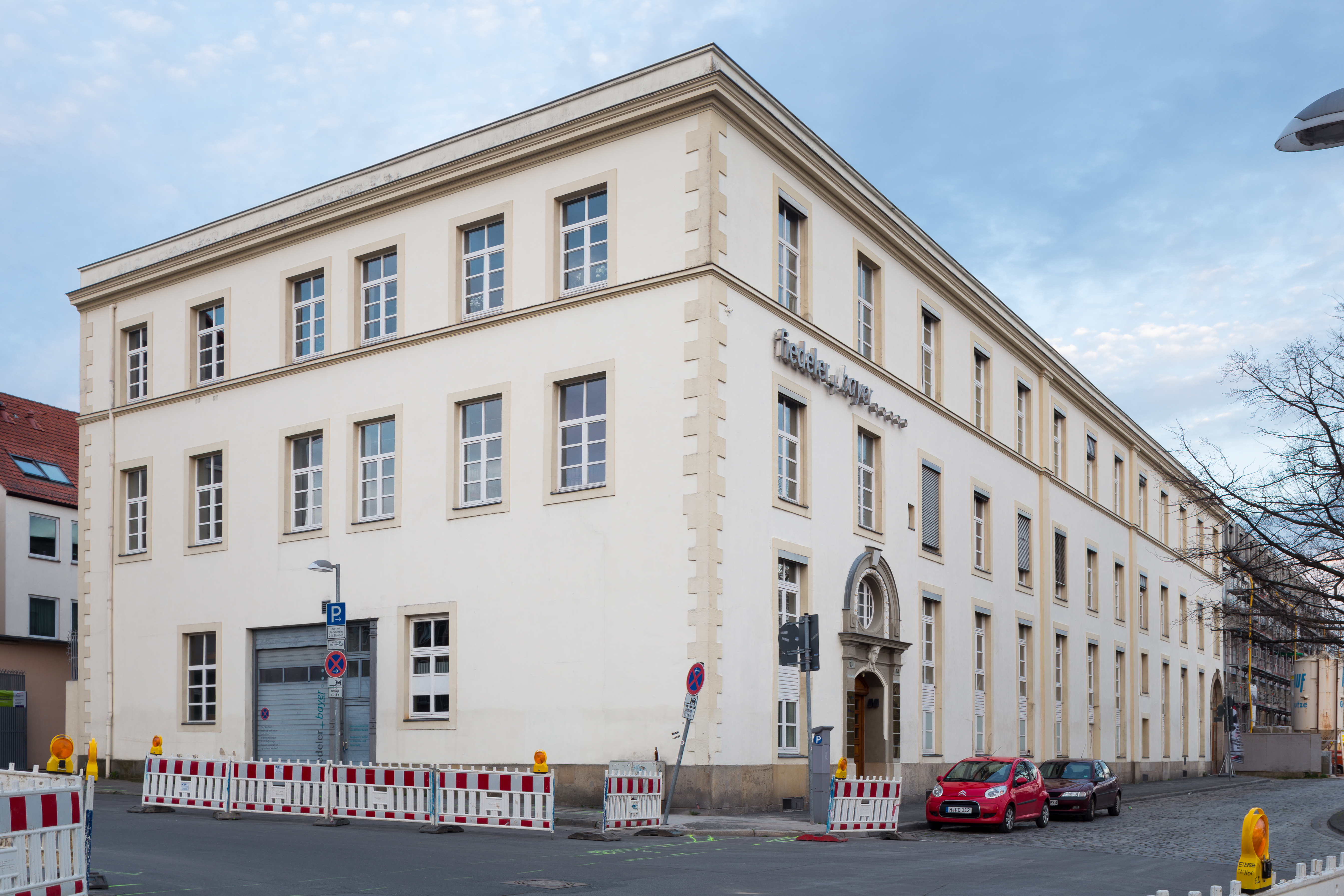 Office building located at Leine river, at Am Hohen Ufer in Mitte quarter of Hannover, Germany.